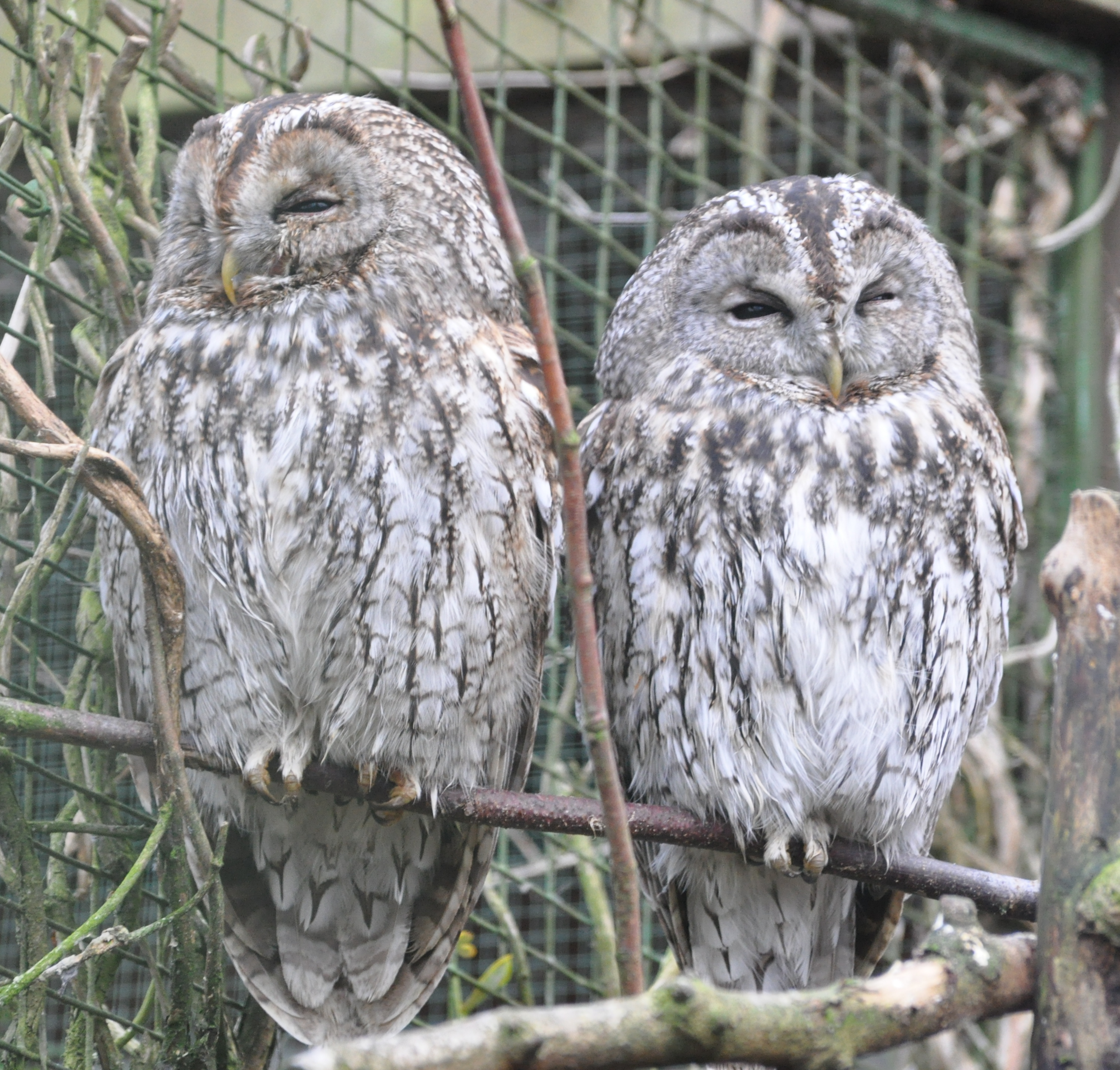 Tawny Owls (Strix aluco) in the Lüneburg Heath wildlife park, Germany.